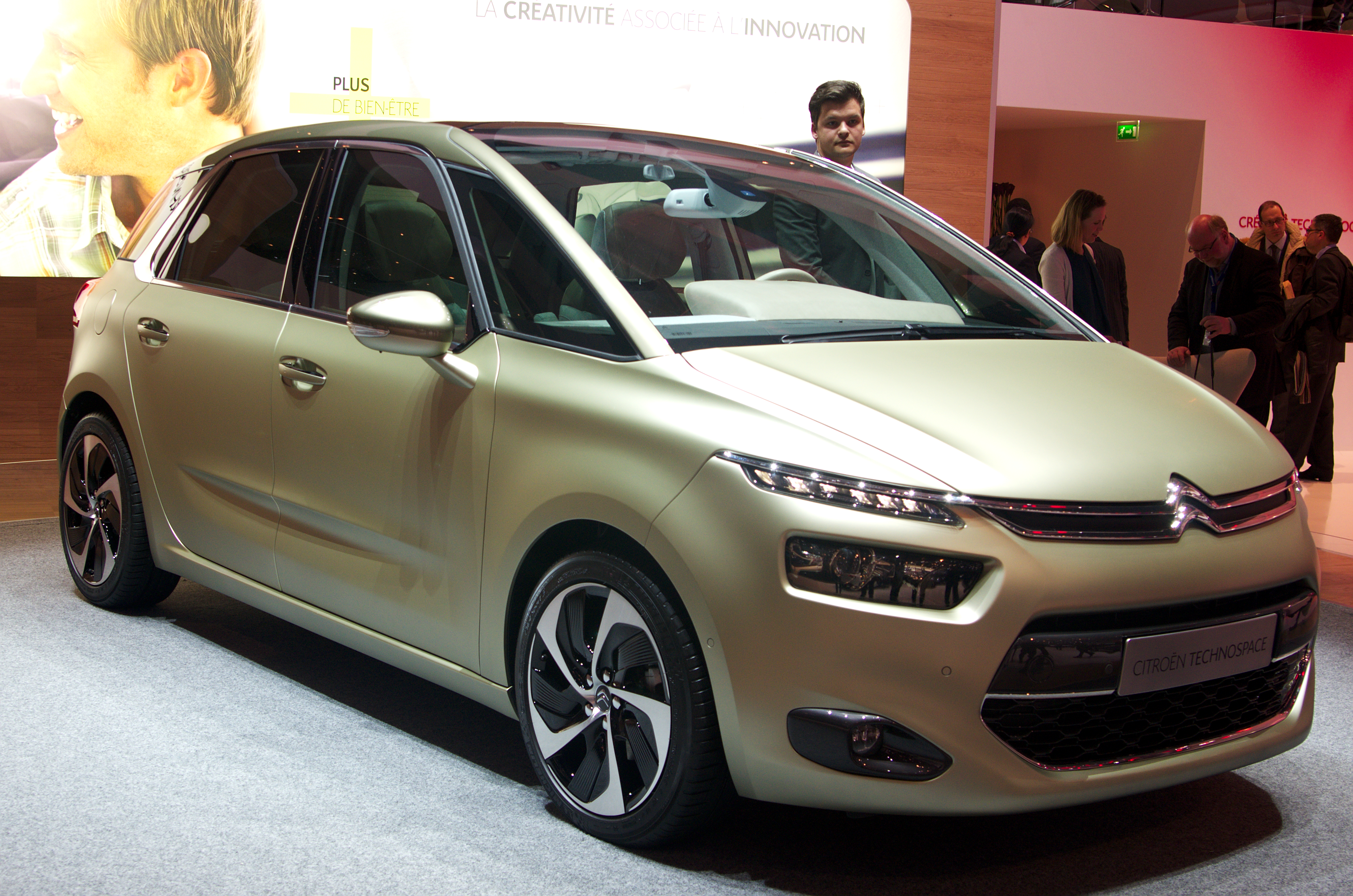 Geneva MotorShow 2013 - Citroen Technospace